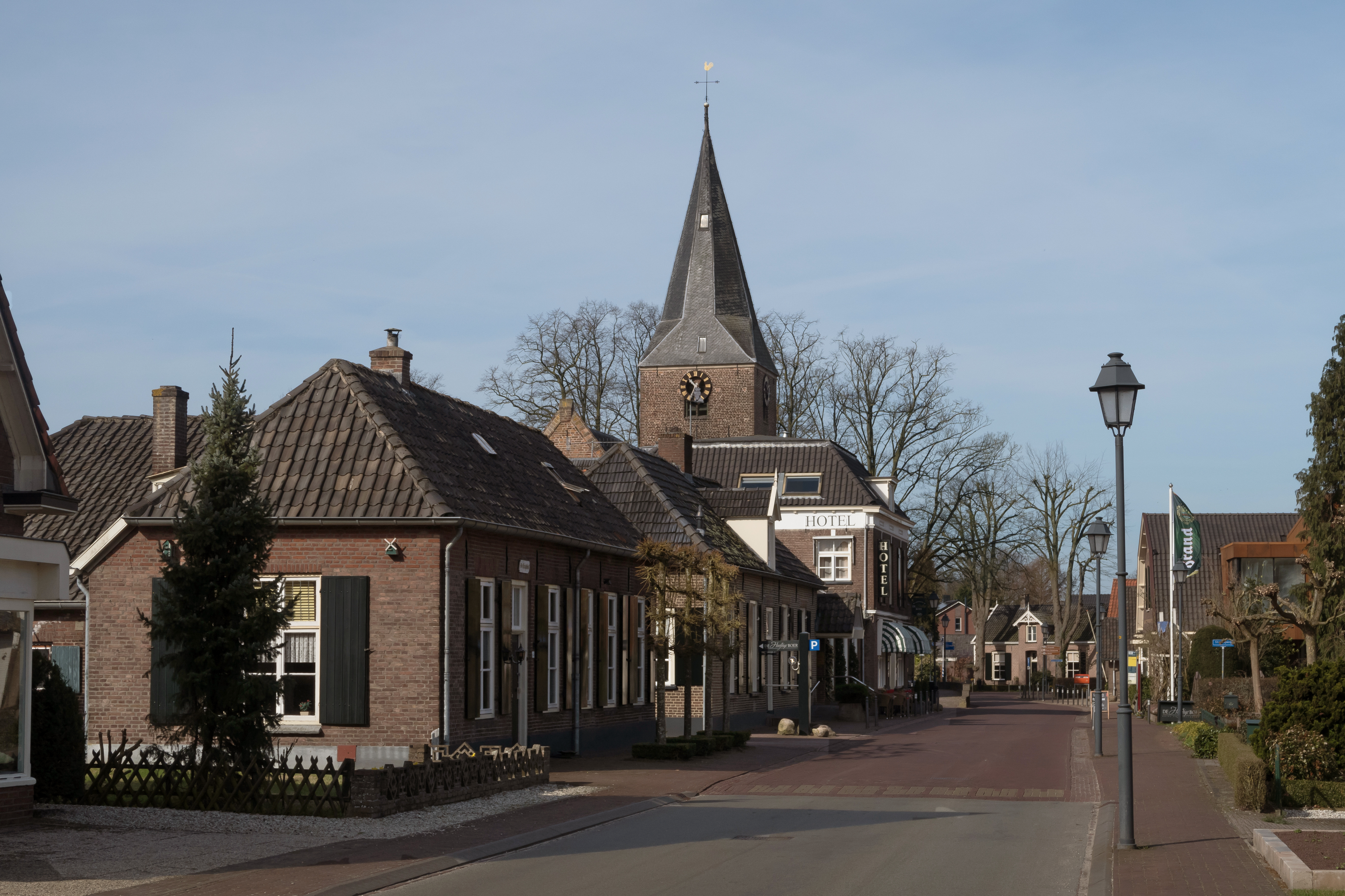 Almen, view to the Dorpsstraat with reformed church